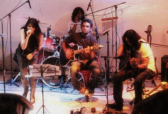 Eastern Fare, a band from Bangalore performing at Kyra Theater, 2009